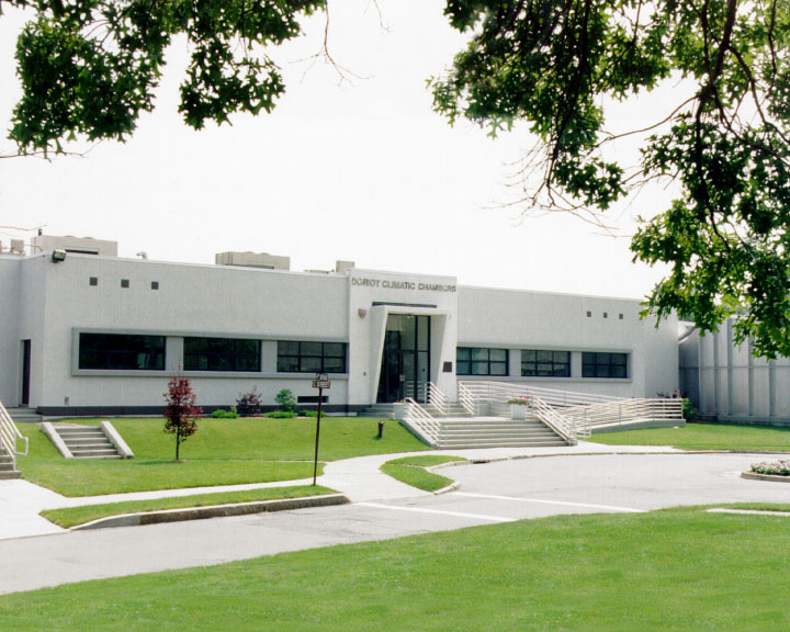 Front entrance of the Doriot Climatic Chambers, Natick, Massachusetts, USA